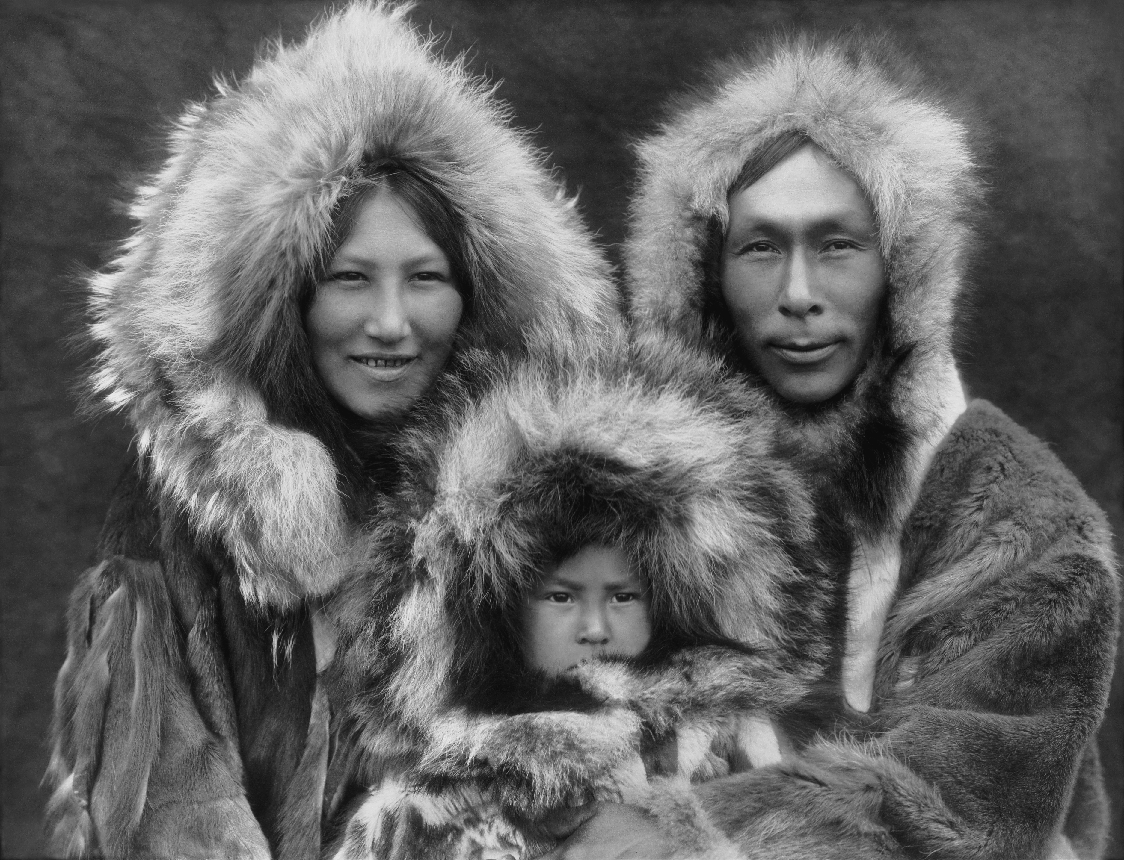 A family portrait of an Inupiat Eskimo mother, father, and son. Photographed in Noatak, Alaska, circa 1929. From The North American Indian, by Edward S. Curtis. The scan was made from a black and white film copy negative.